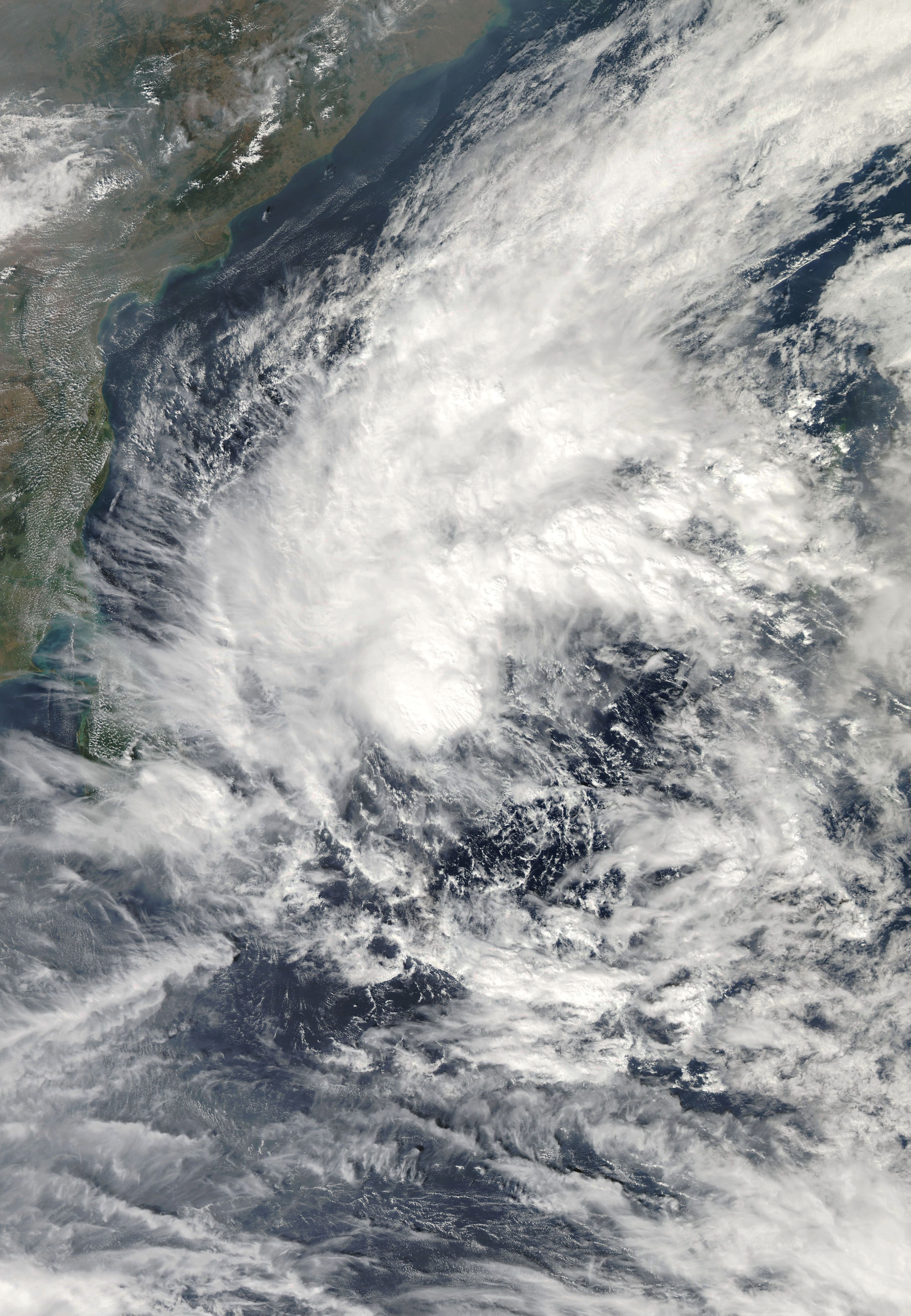 Deep Depression BOB 10 east of Sri Lanka on December 14, 2018